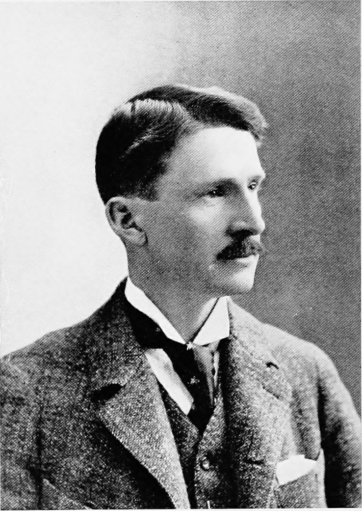 Portrait